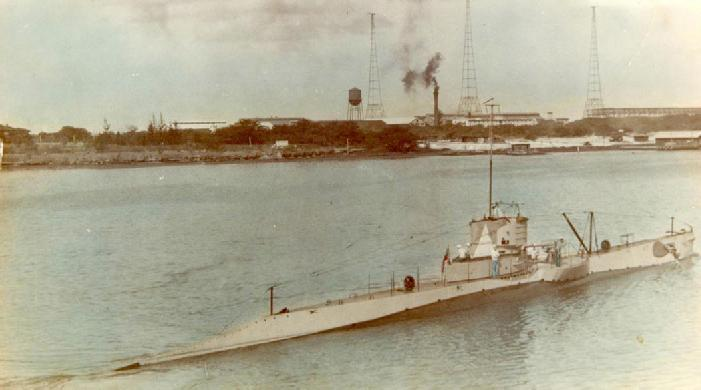 Tinted photograph of United States Navy submarine